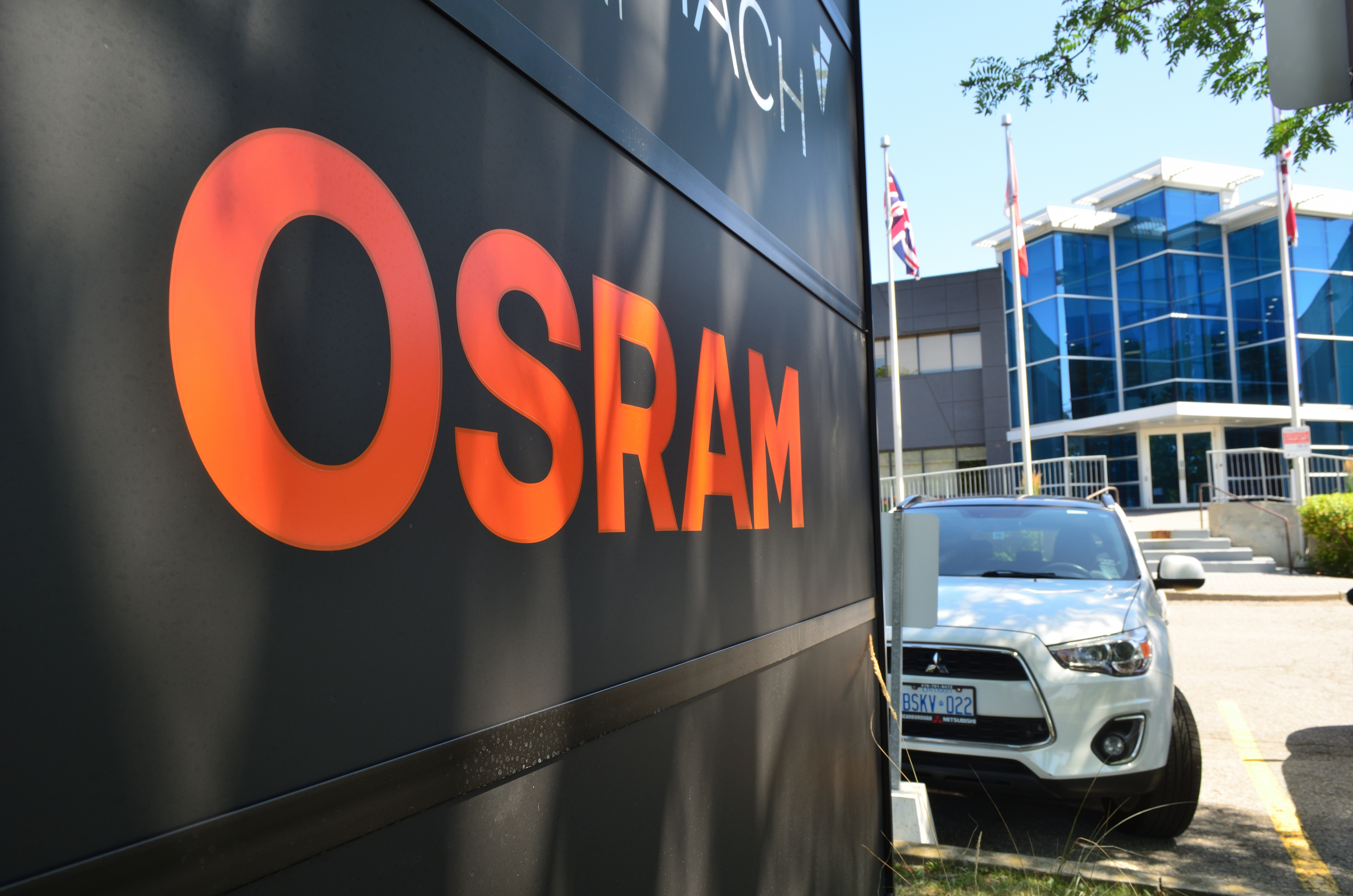 OSRAM Sylvania Ltd- Address: 55 Renfrew Dr, Markham, ON L3R 8H3